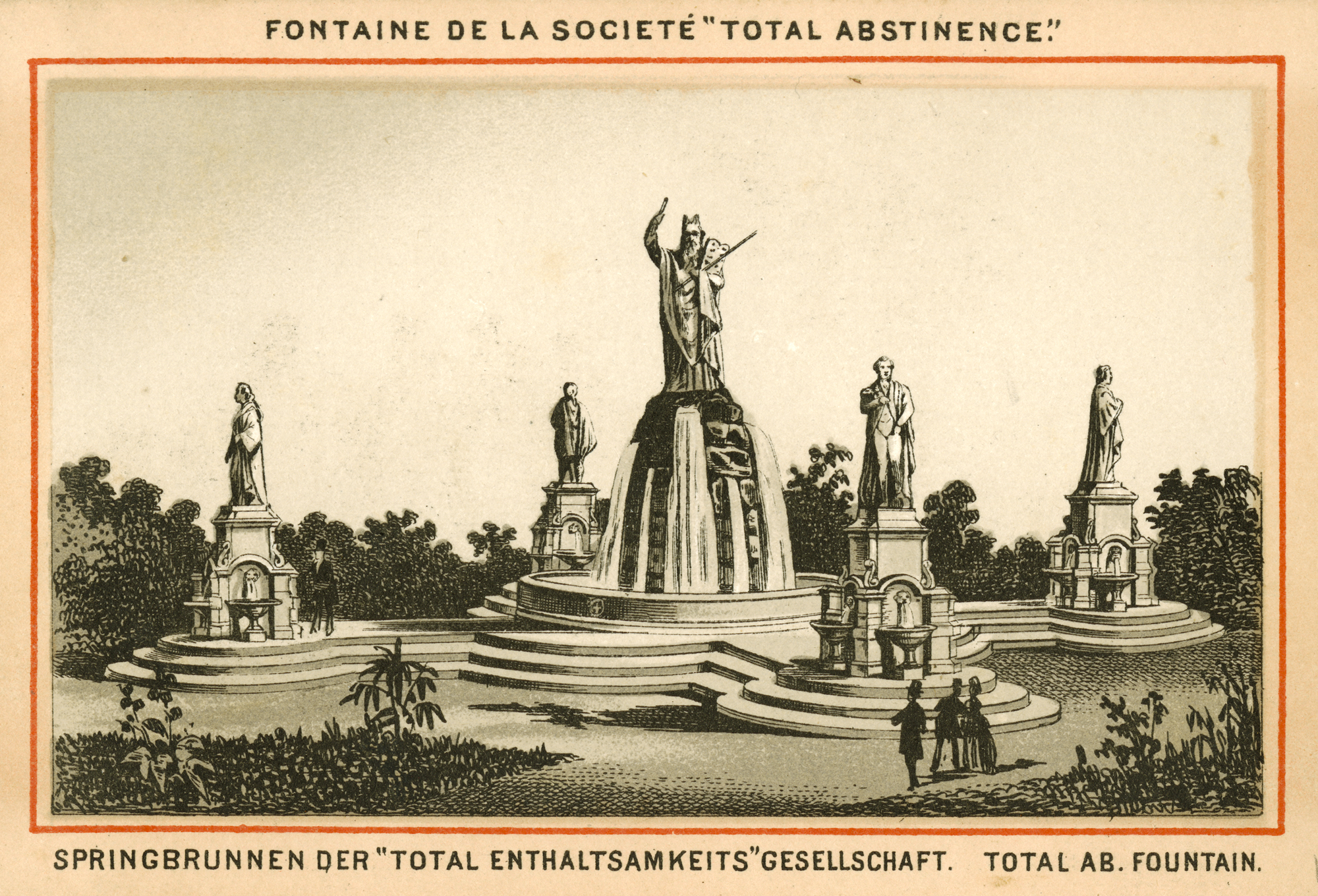 "Fontaine de la Societé 'Total Abstinence'." Illustration from Ostheimer Brothers, Centennial Souvenir, 1876, Philadelphia. (Philadelphia, 1876).